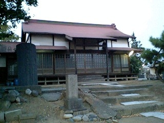 Amidado Temple,Kamiuchimagi,Asaka city,Saitama,JAPAN